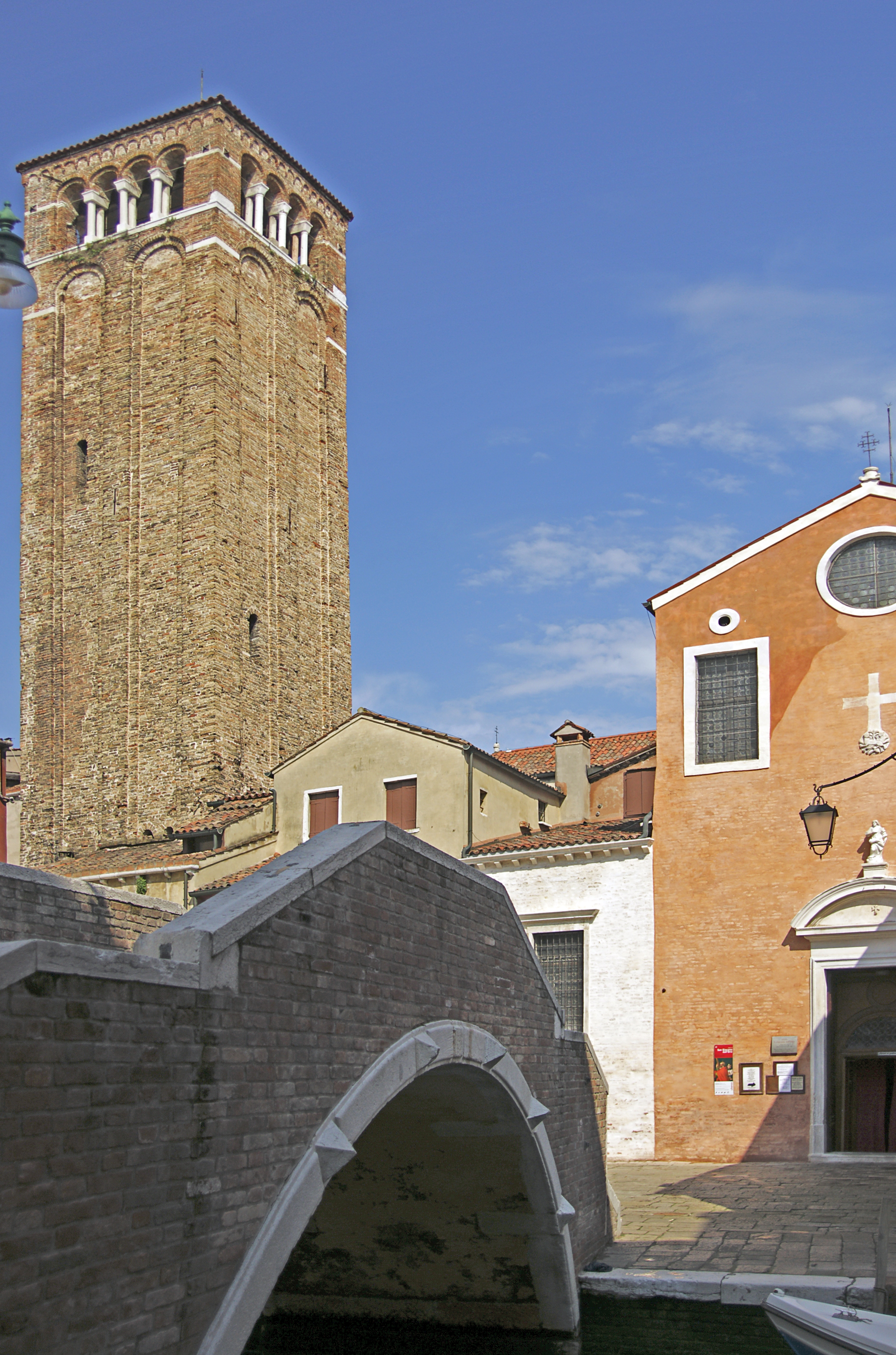 Church of San Giacomo dall'Orio in Venice Facade and Bell Tower.